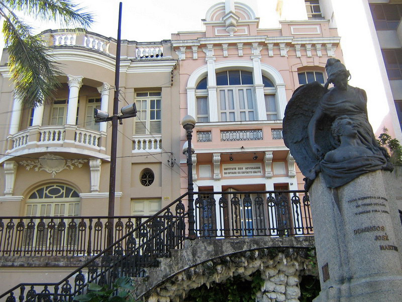 Instituto dos Advogados (Lawyers Institute), Old town, Vitória, state of Espírito Santo, Brazil.